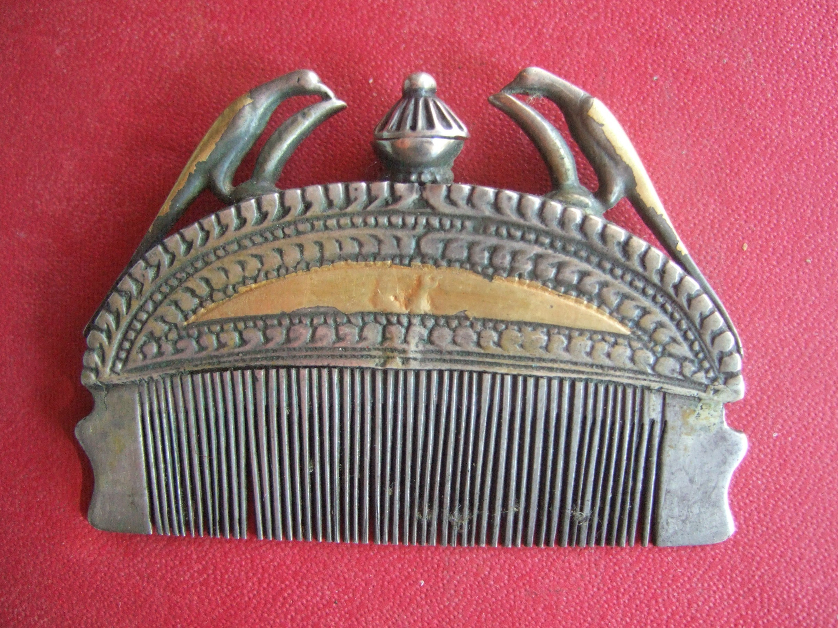 Indian comb decorated with a pair of birds (ca. 19th century)